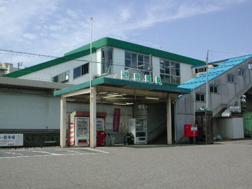 Terao Station in Nishi-ku, Niigata city, Niigata Prefecture, Japan